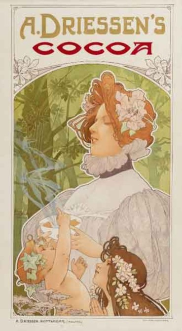 Affiche Driessen (about 1900)